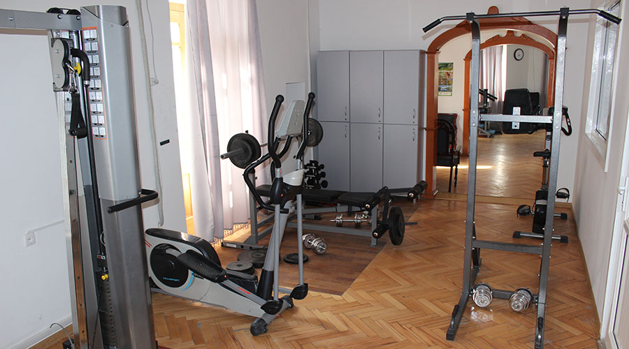 sports